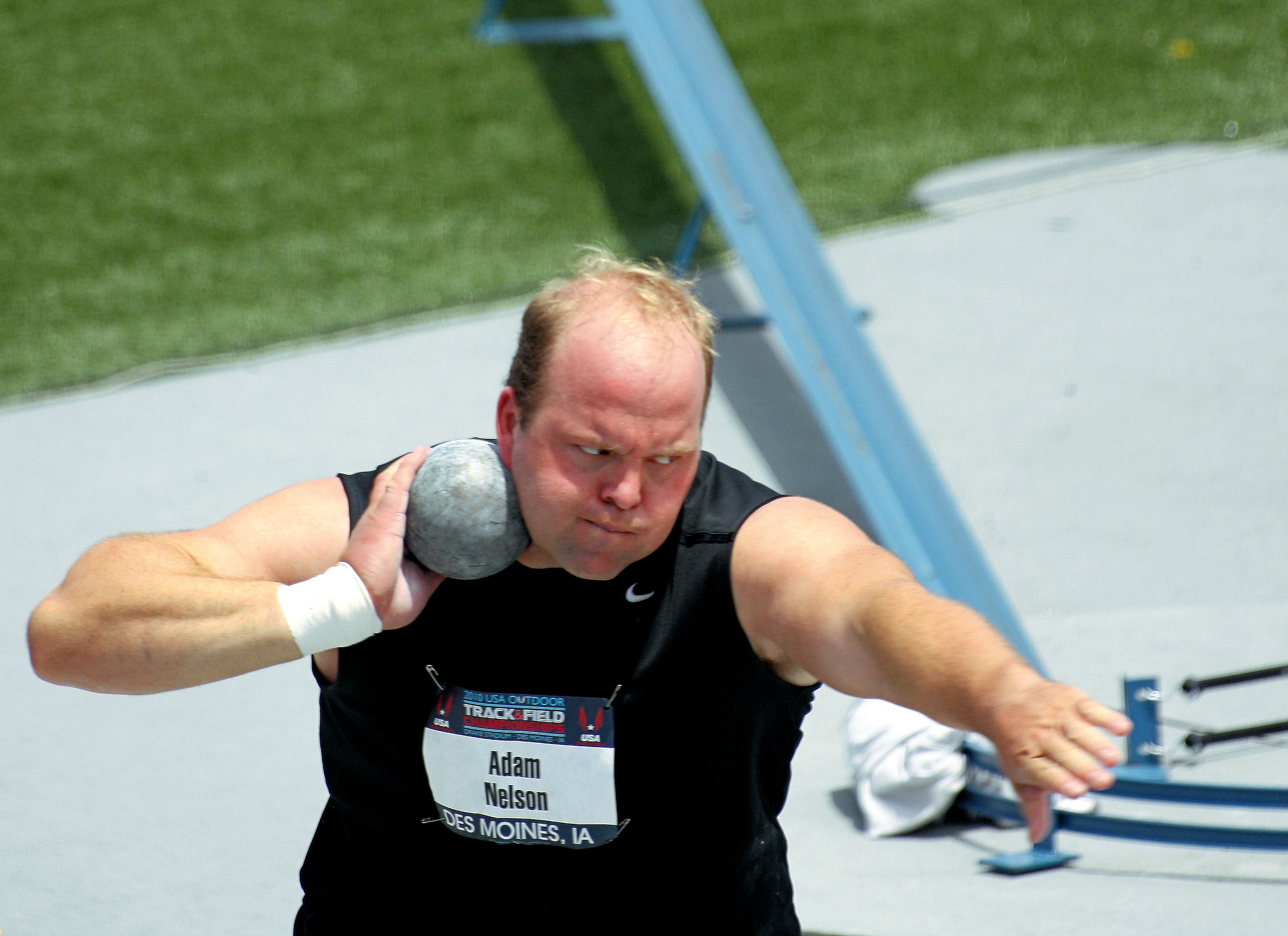 2000 and 2004 Olympic silver medalist Adam Nelson finished third in the shot put.